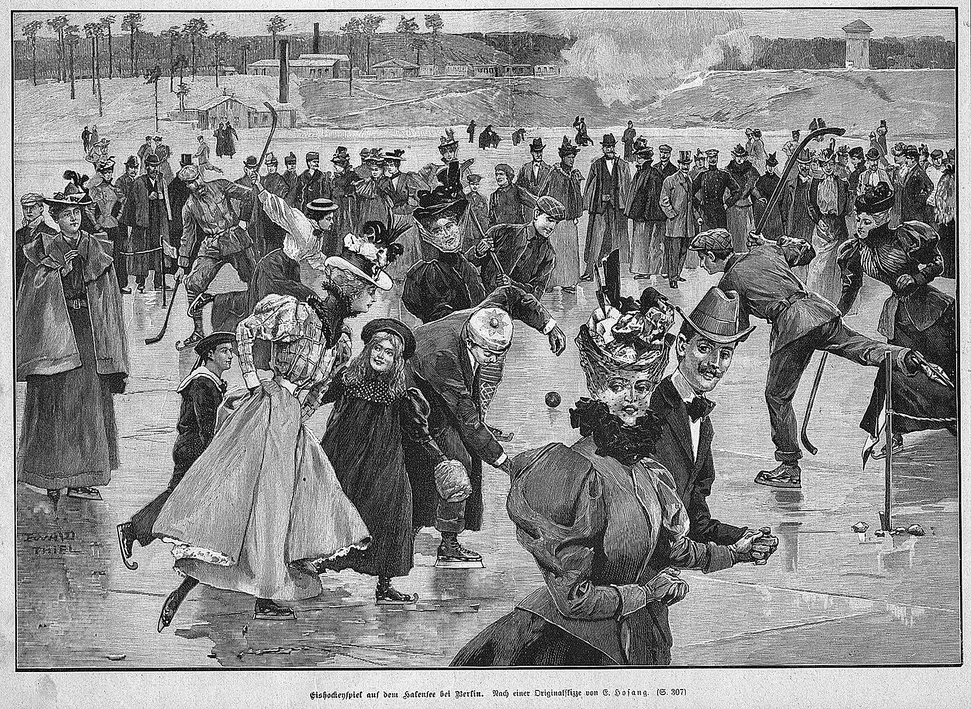 Eishockey on Halensee Lake, Berlin 1898 - Engraved by Thiel